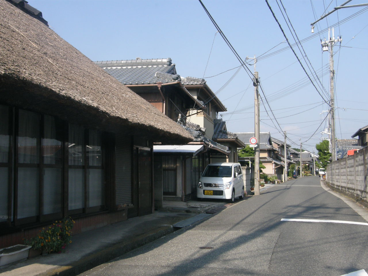 OGO-YUNOYAMA-KAIDO